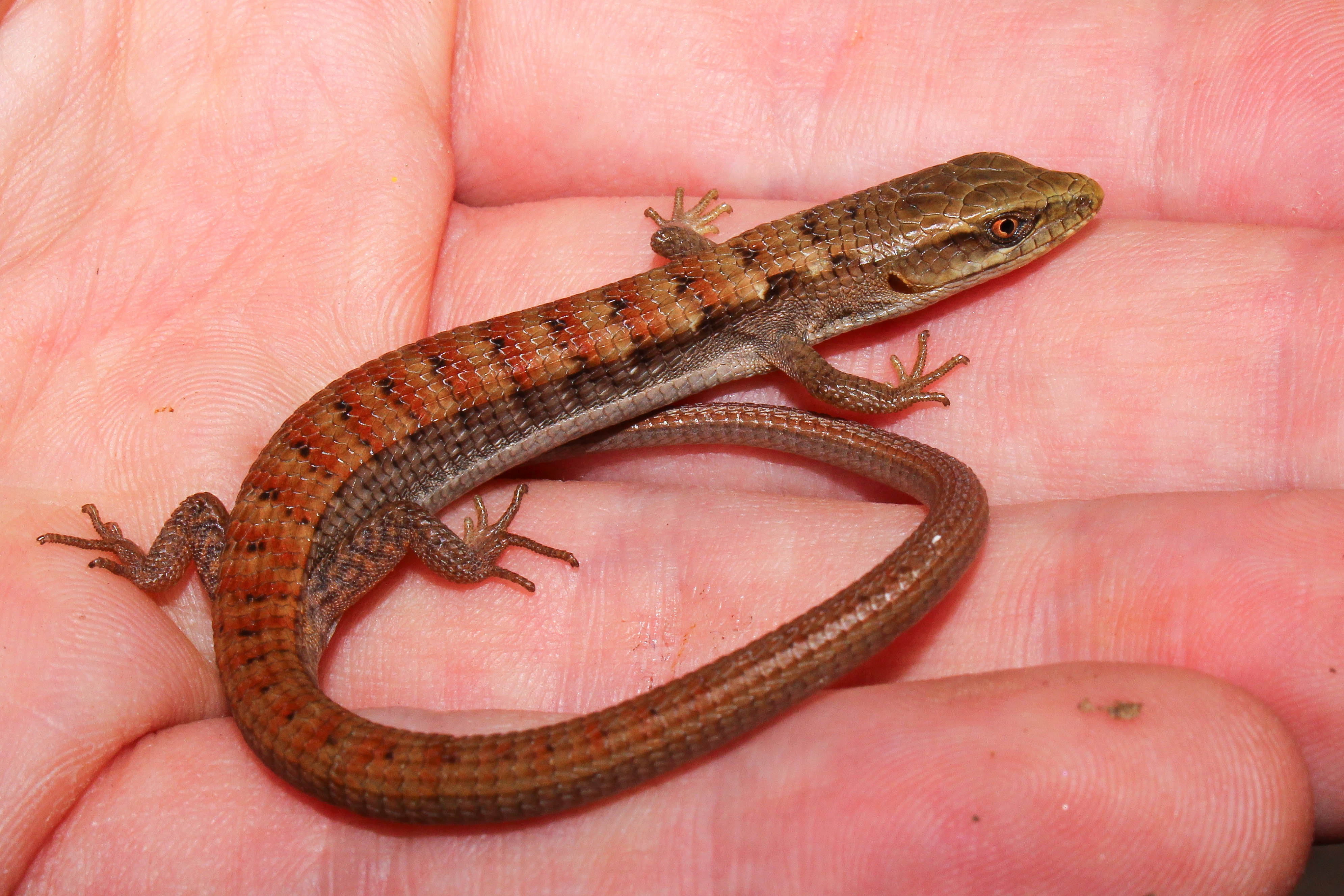 Southern alligator lizard (Elgaria multicarinata), Sacramento County, California.